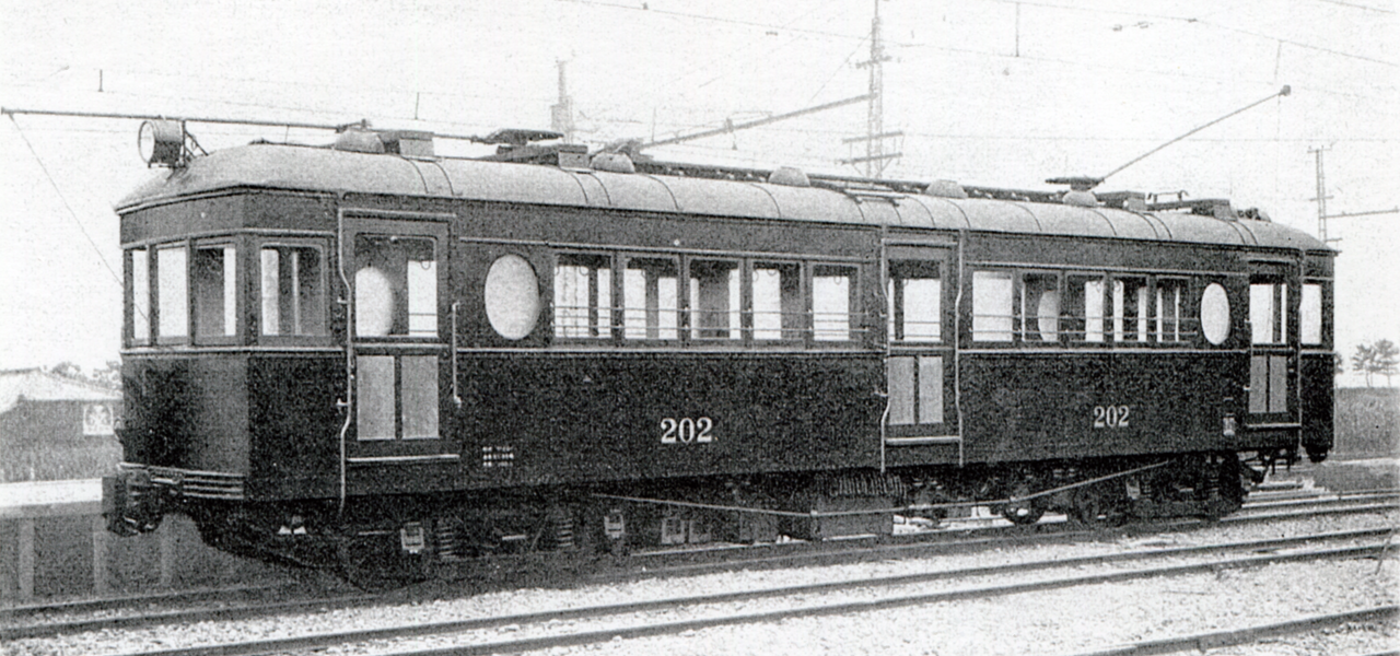 UEDA-ONSEN-DENKI Railway Type DeNa 200 EMU No.202